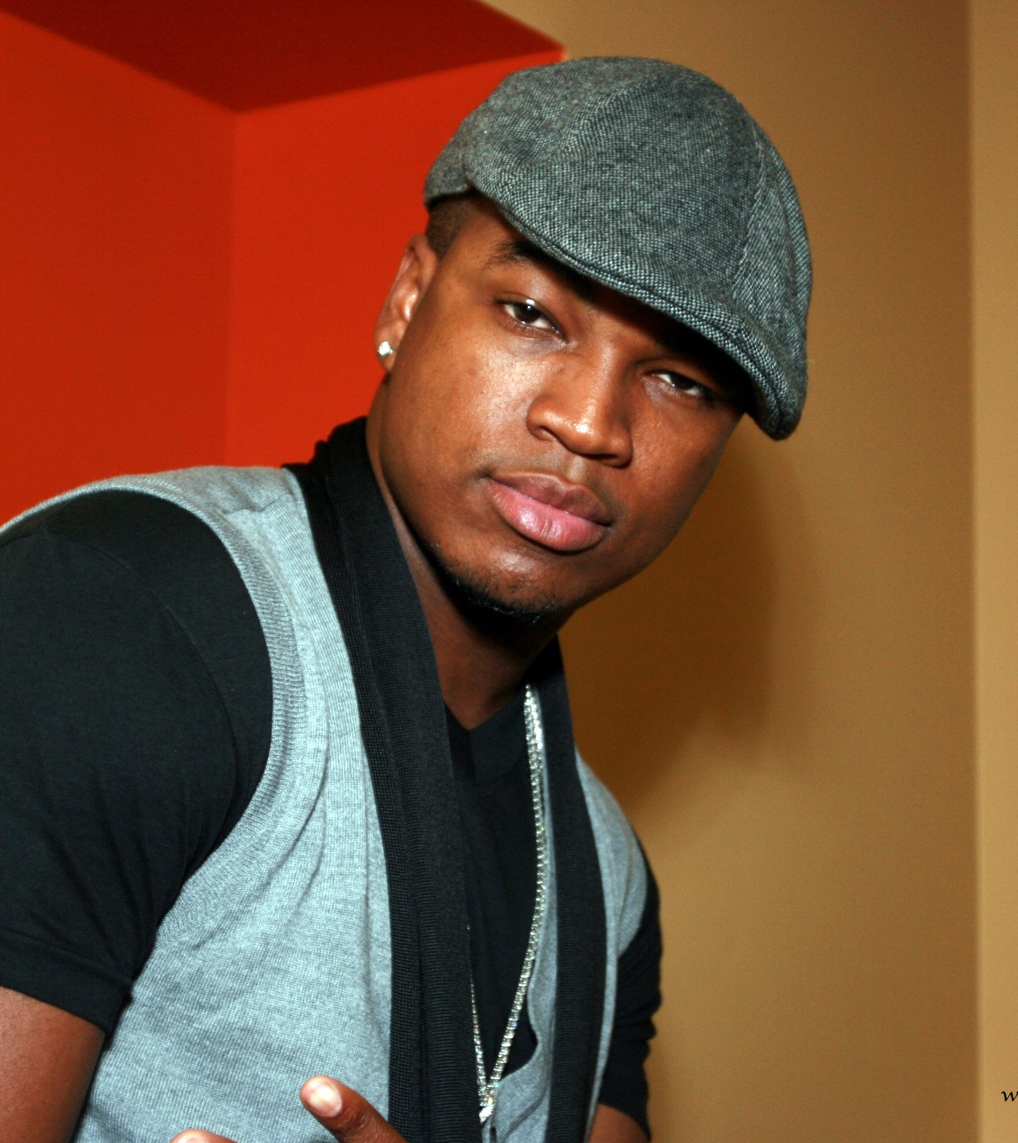 Photographer: Jasen Hudson